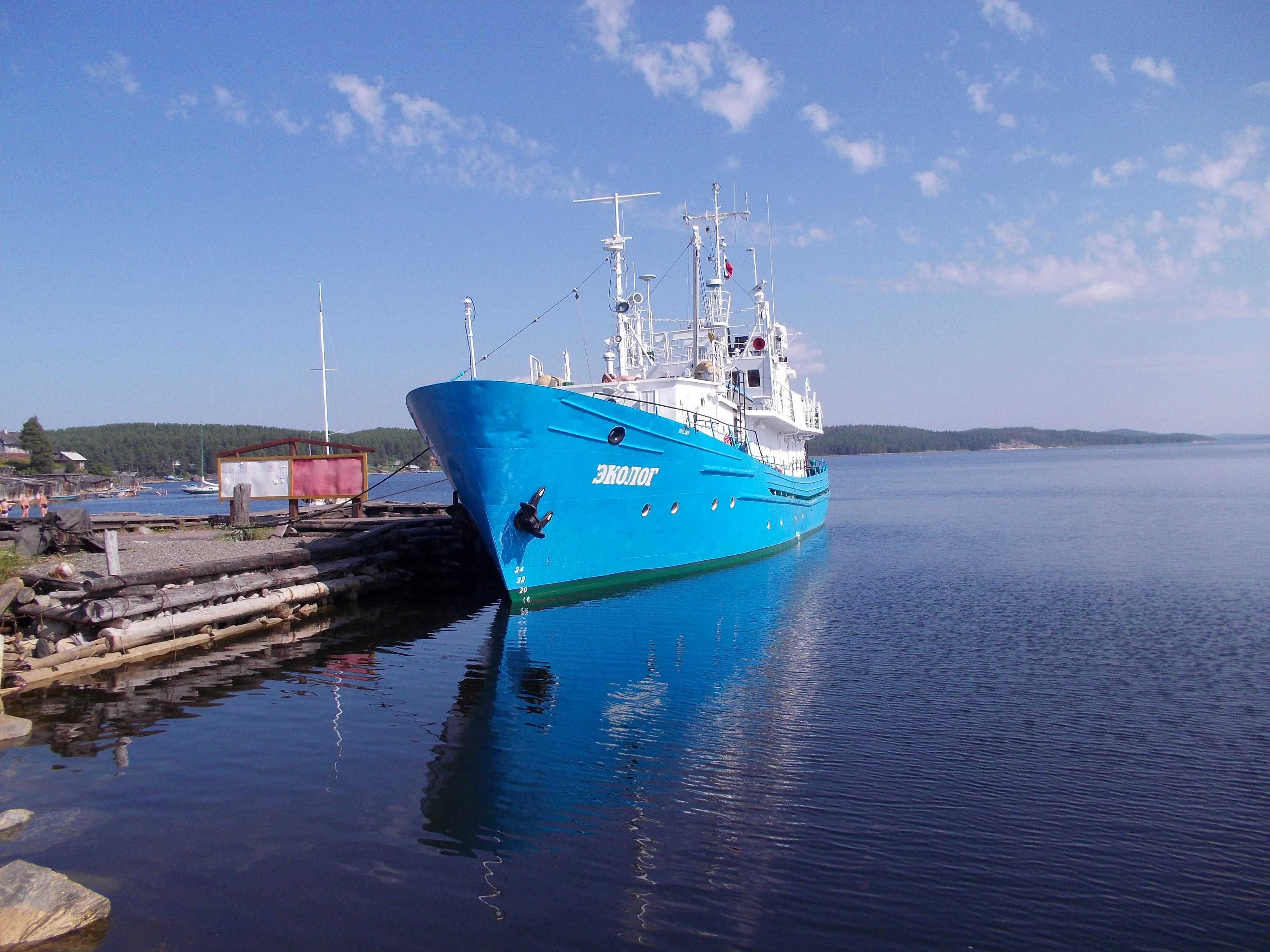 NIS Ecolog